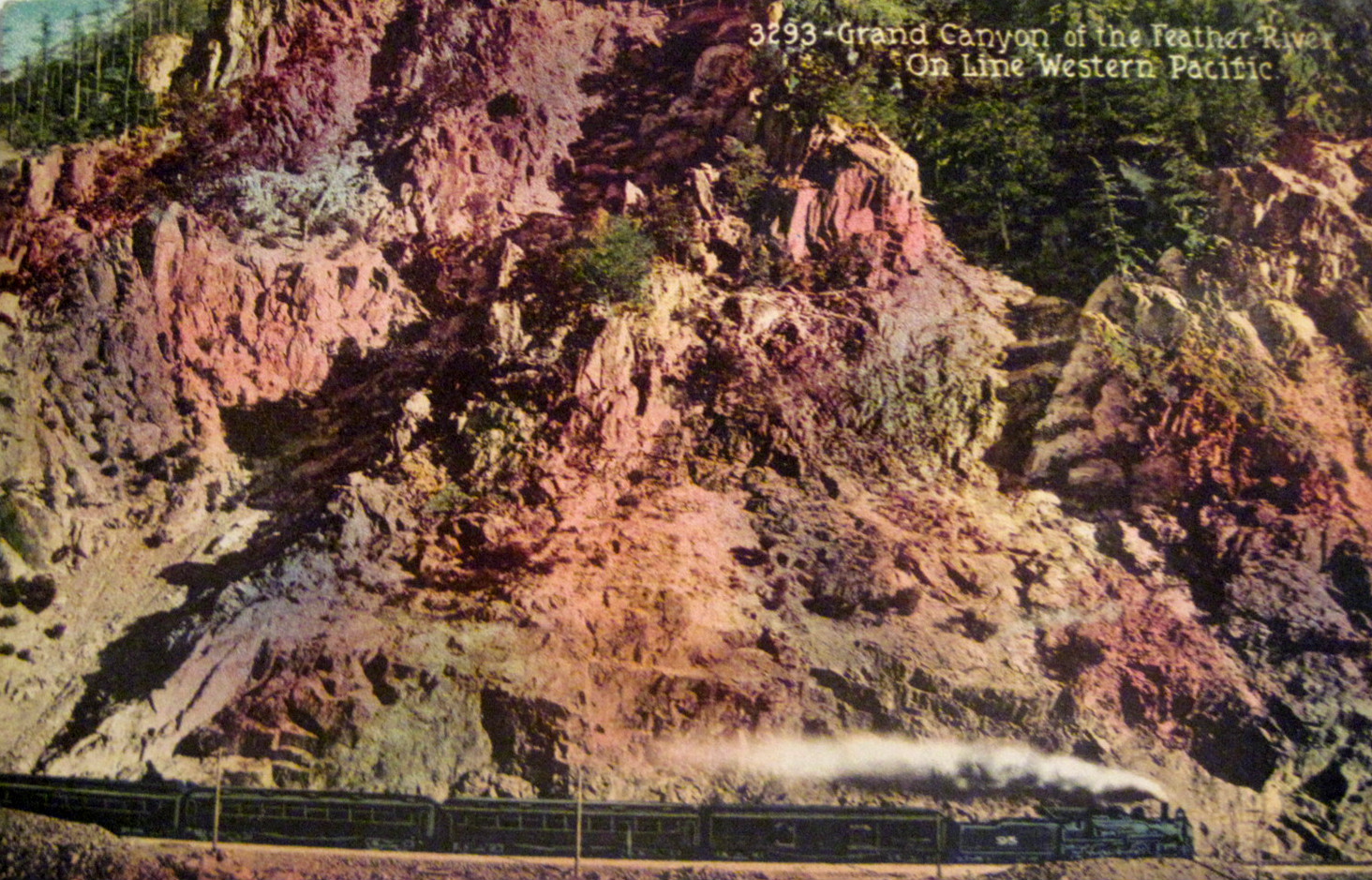 Postcard photo of a Western Pacific passenger train in the grand canyon of the Feather River route.